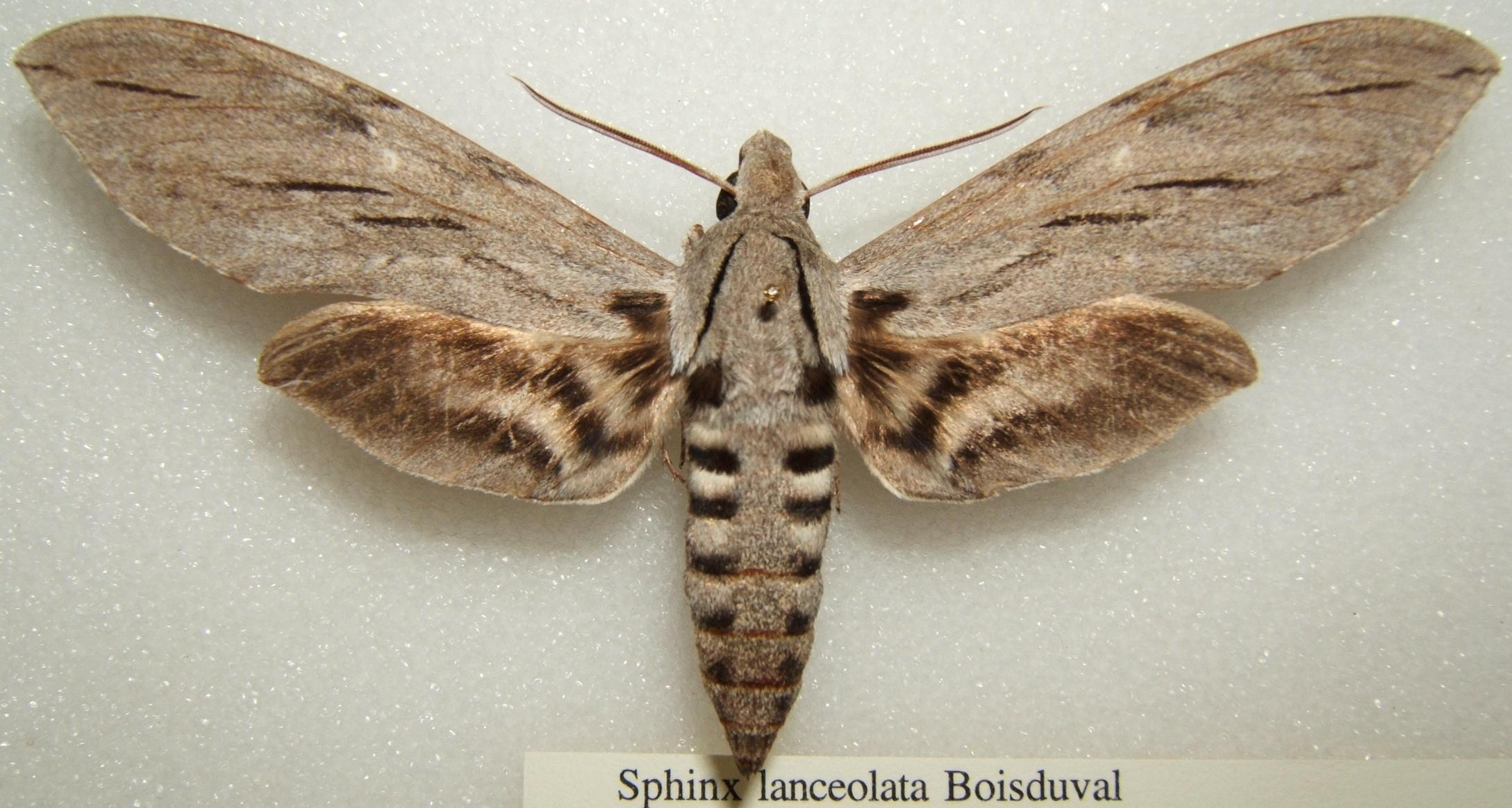 Sphinx lanceolata adult taken by Shawn Hanrahan at the Texas A&M University Insect Collection in College Station, Texas.